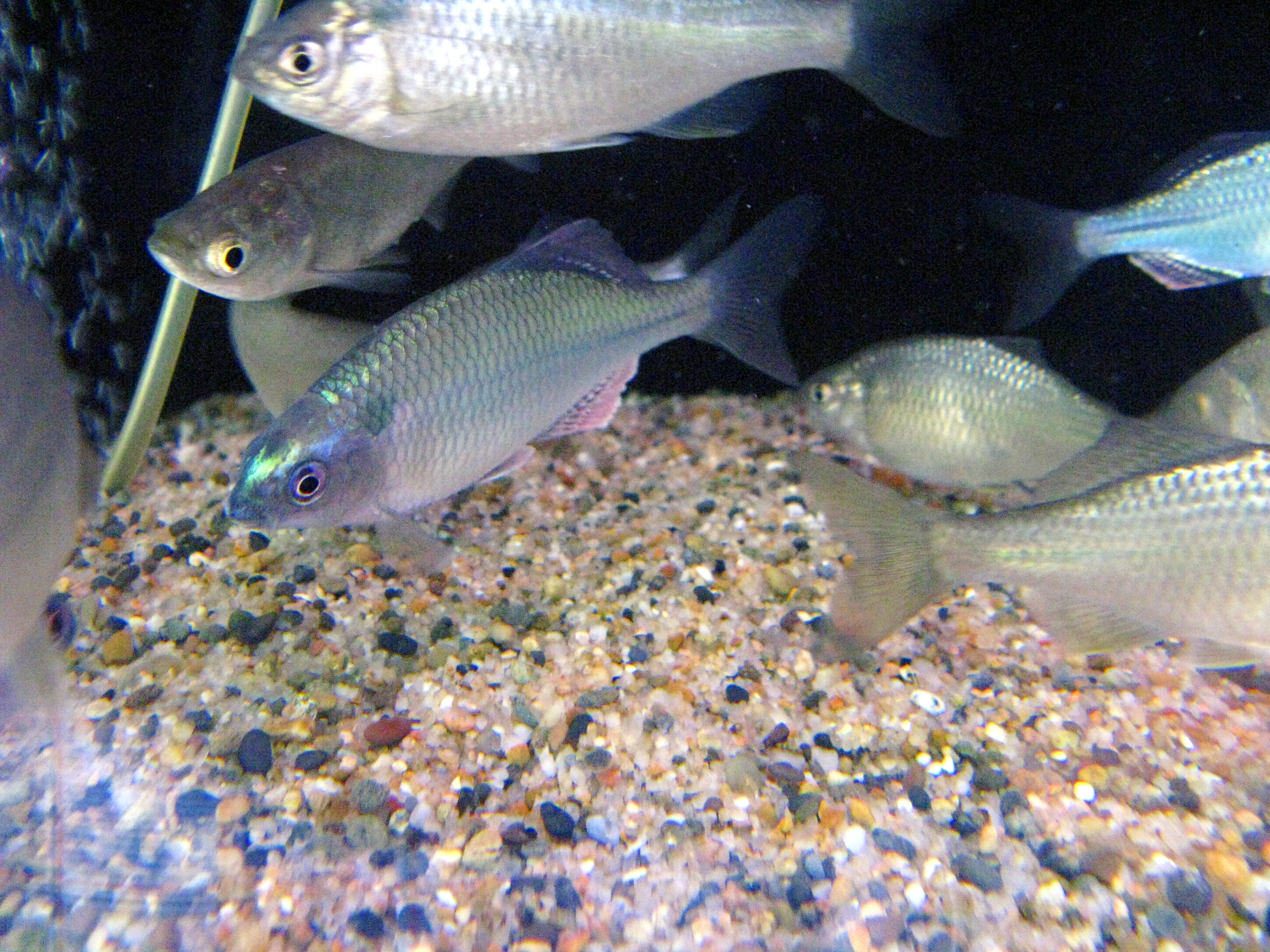 Scientific name Acheilognathus rhombeus